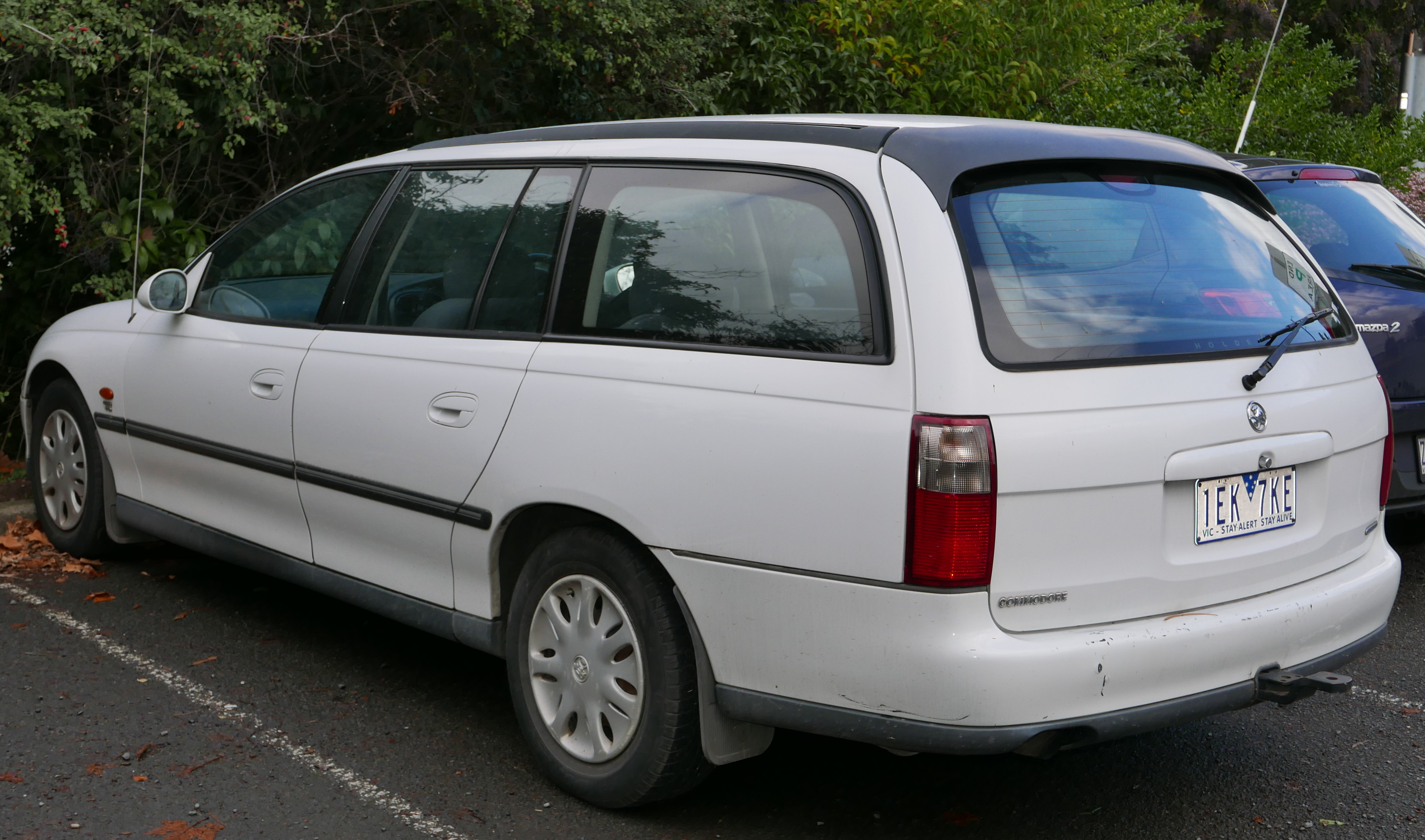 1997 Holden Commodore (VT) Acclaim station wagon. Photographed in Ivanhoe, Victoria, Australia. Vehicle registration enquiry results Jurisdiction Victoria Registration 1EK7KE Chassis code 6H8VTK35HWL286829 Engine code VH726142 Compliance date 1997-11 Year of manufacture 1997